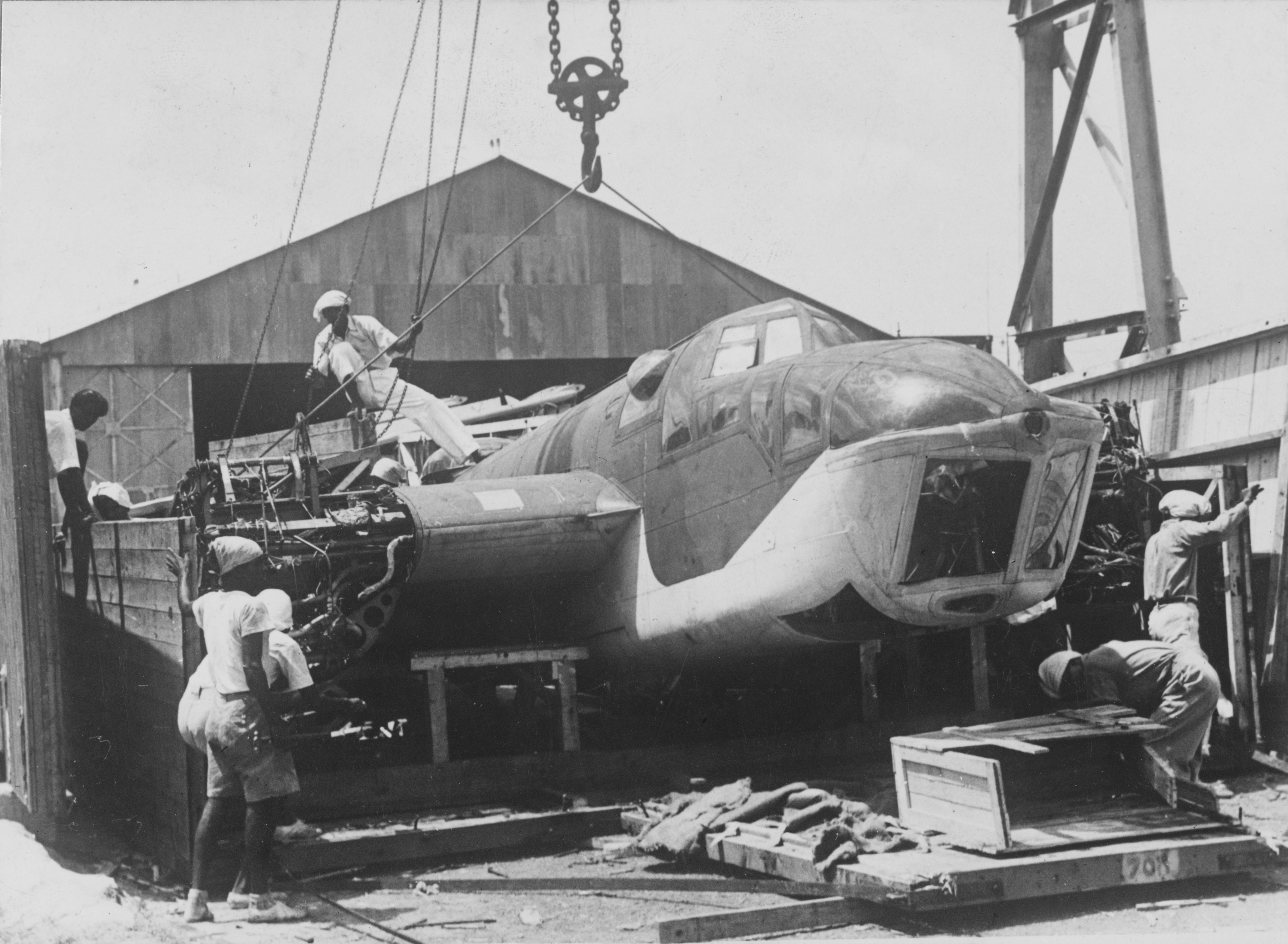 A Royal Air Force Bristol Blenheim I bomber is unpacked at Singapore, circa 1941.